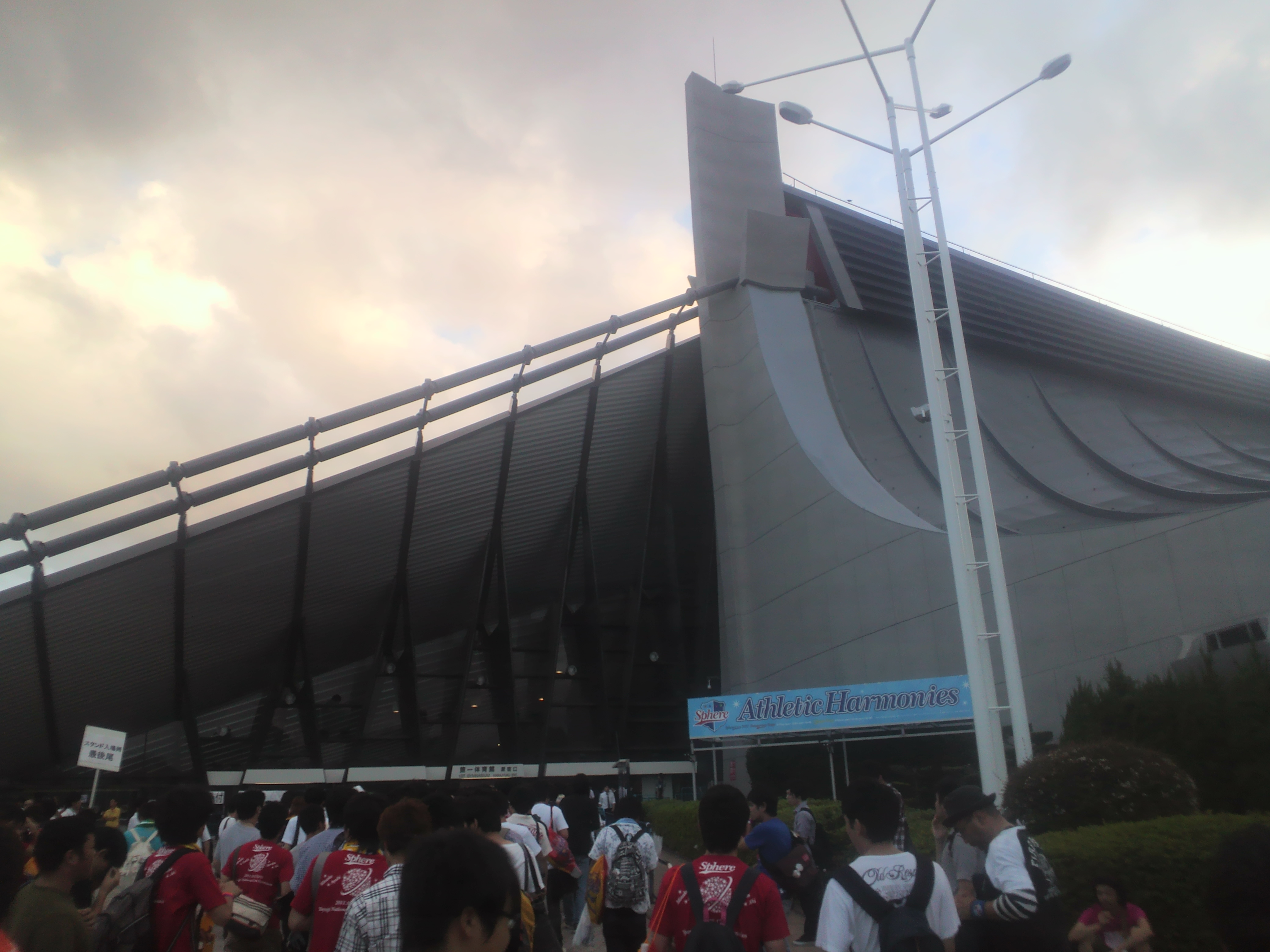 Yoyogi National Gymnasium 1st Gymnasium where Sphere LIVE 2011 Athletic Harmonies was held on the 17th and 18th of September in 2011. This picture was taken on September 17th.